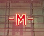 Concert -M- Olympia